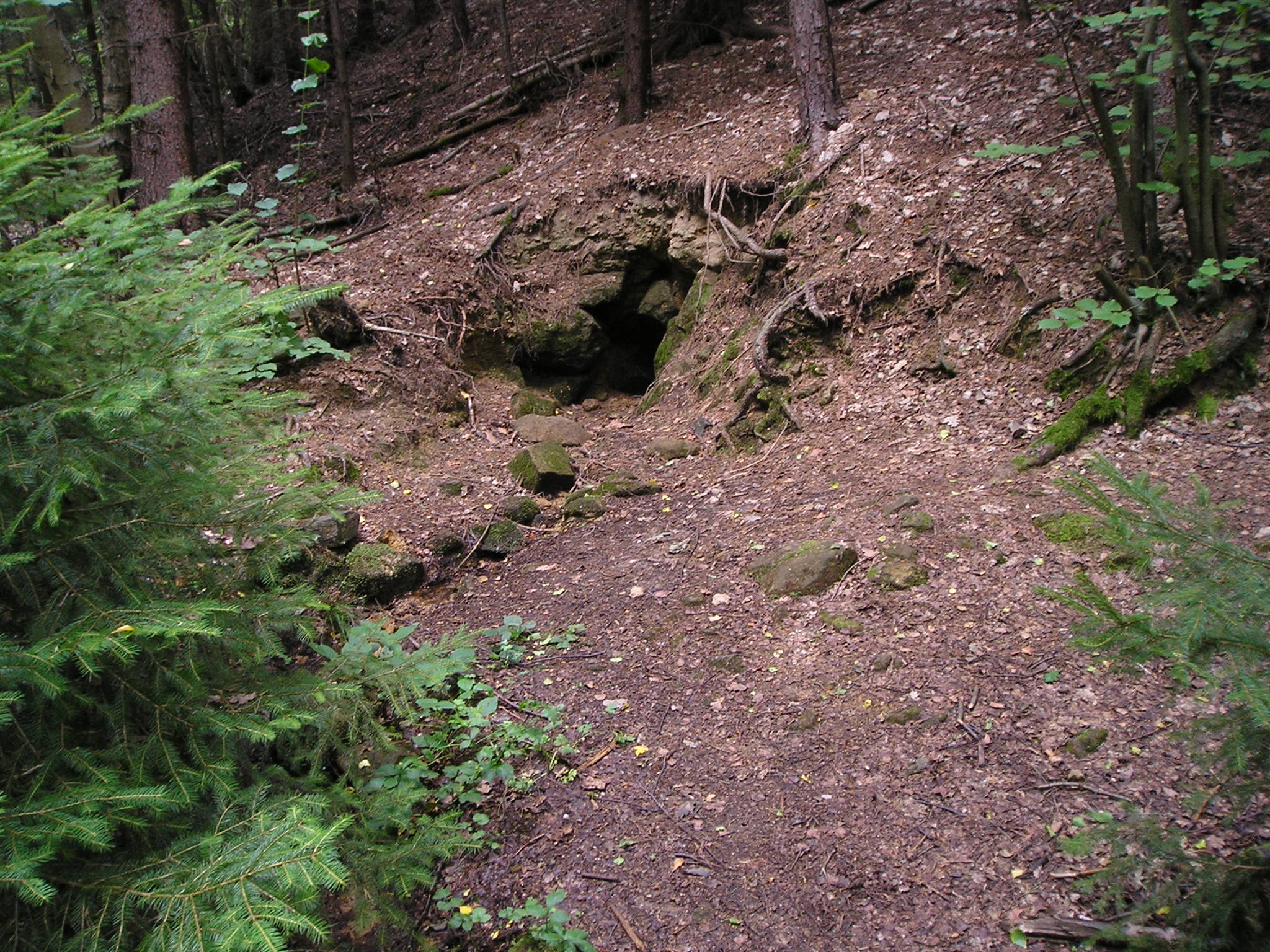 Cave Malá Petrovská, Nature reserve Petrovka, Bolevec, Pilsen